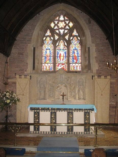 Altar, St. Peter's Church, Pudlestone